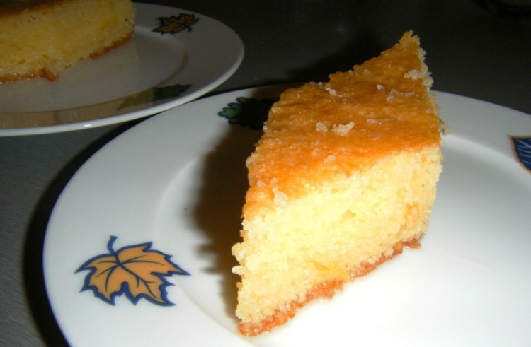 Sponge dessert made from fresh eggs and semolina, overlaid with sugar syrup